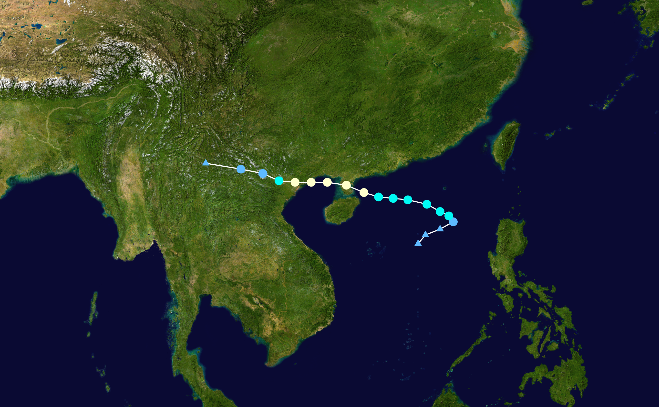 Typhoon Zita 1997 track. Uses the color scheme from the Saffir-Simpson Hurricane Scale.